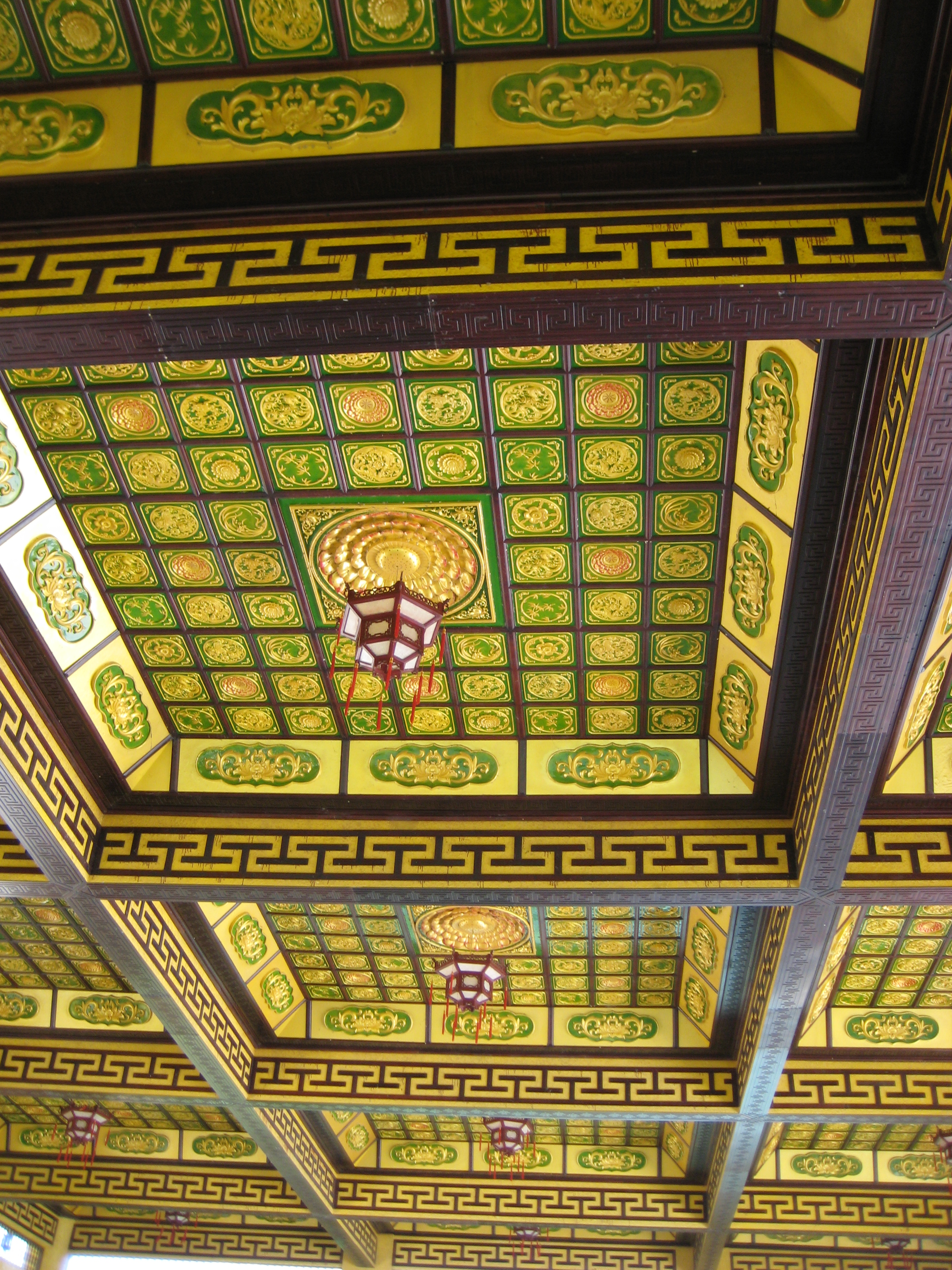 The ceiling of the temple main entrance in Đại Nam Quốc Tự, Binh Duong, Vietnam